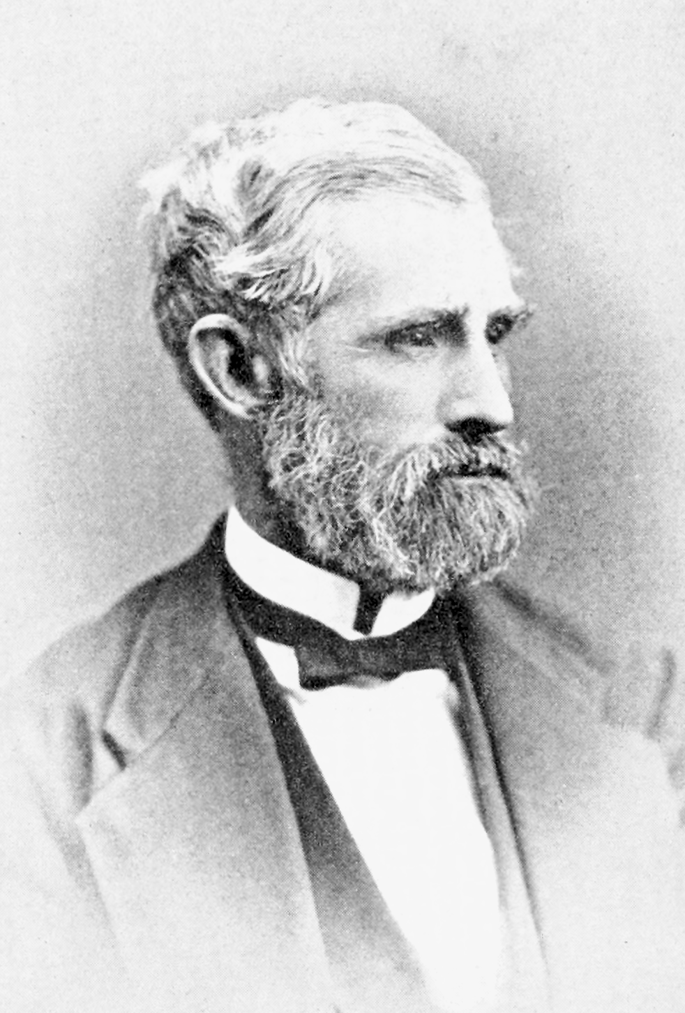 A portrait of Levi Stockbridge, farmer, agriculturalist, soil scientist, professor of agriculture and 5th president at the Massachusetts Agricultural College (now the University of Massachusetts Amherst).